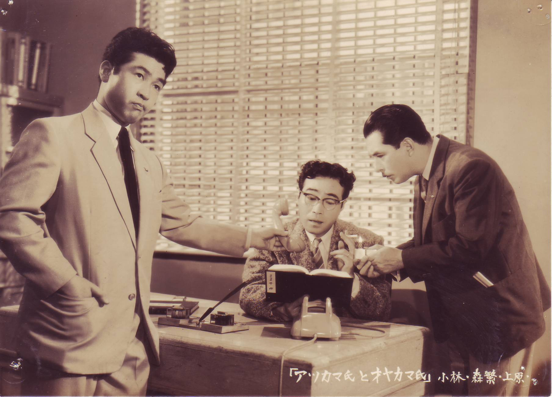 Keiju Kobayashi (left), Hisaya Morishige and Ken Uehara. Studio Still of the 1955 Japanese film "Atsukama-shi to Oyakama-shi" (Shintoho).